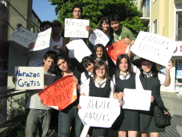 A student group part of 'FREE HUGS', Chile.